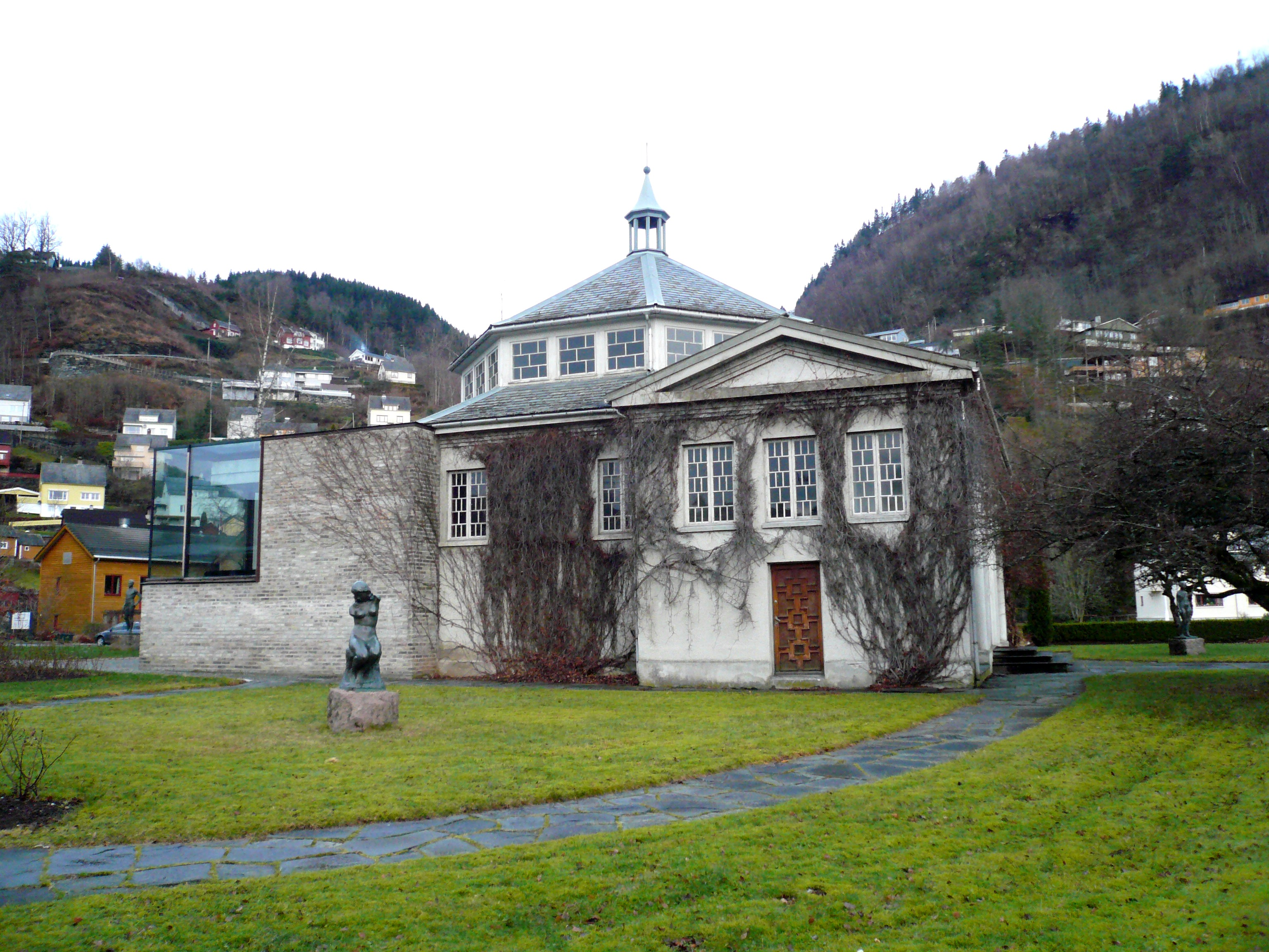 Ingebrigt Vik Museum in Øystese, Norway.